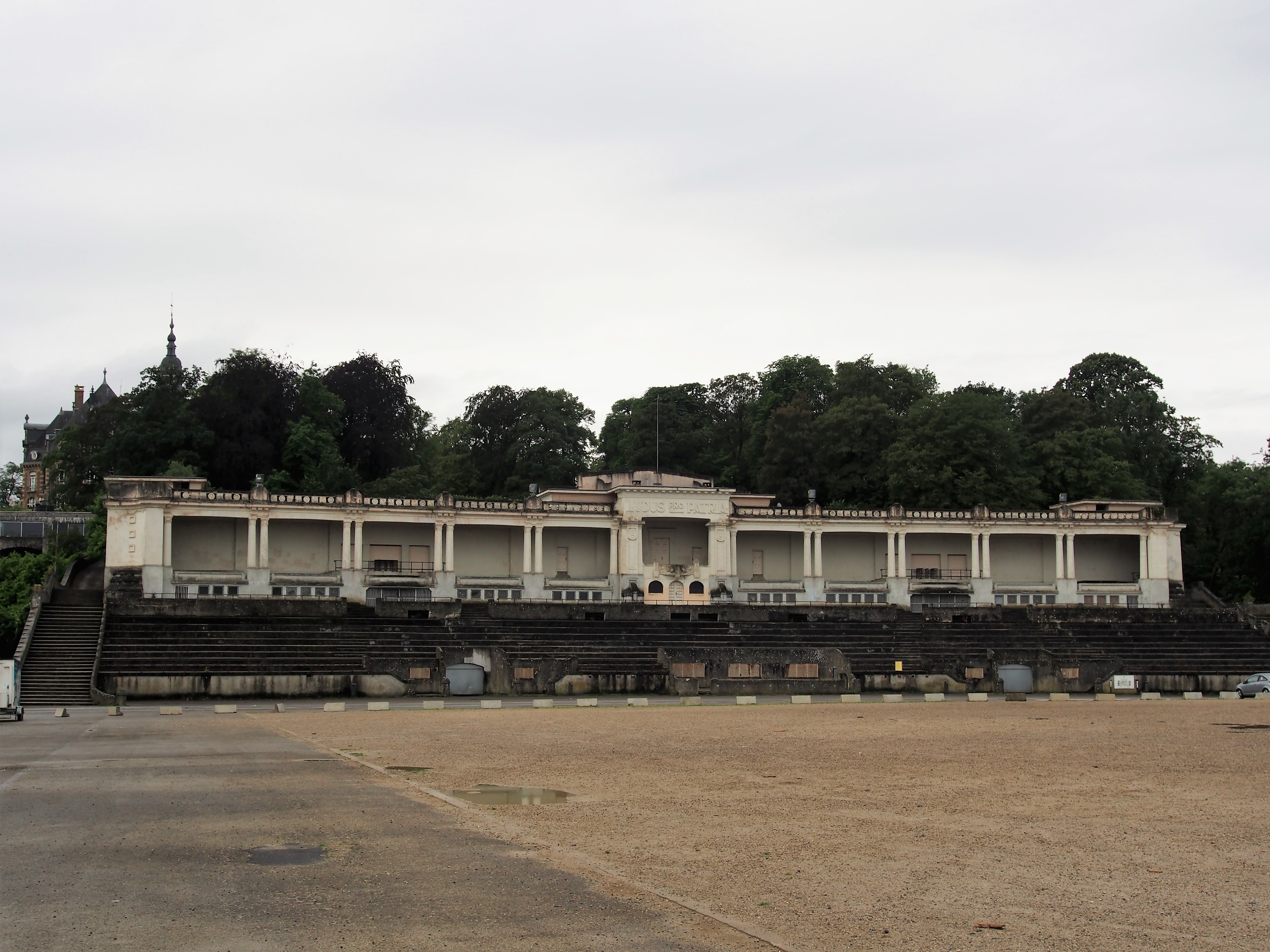 Photographed in Namur.